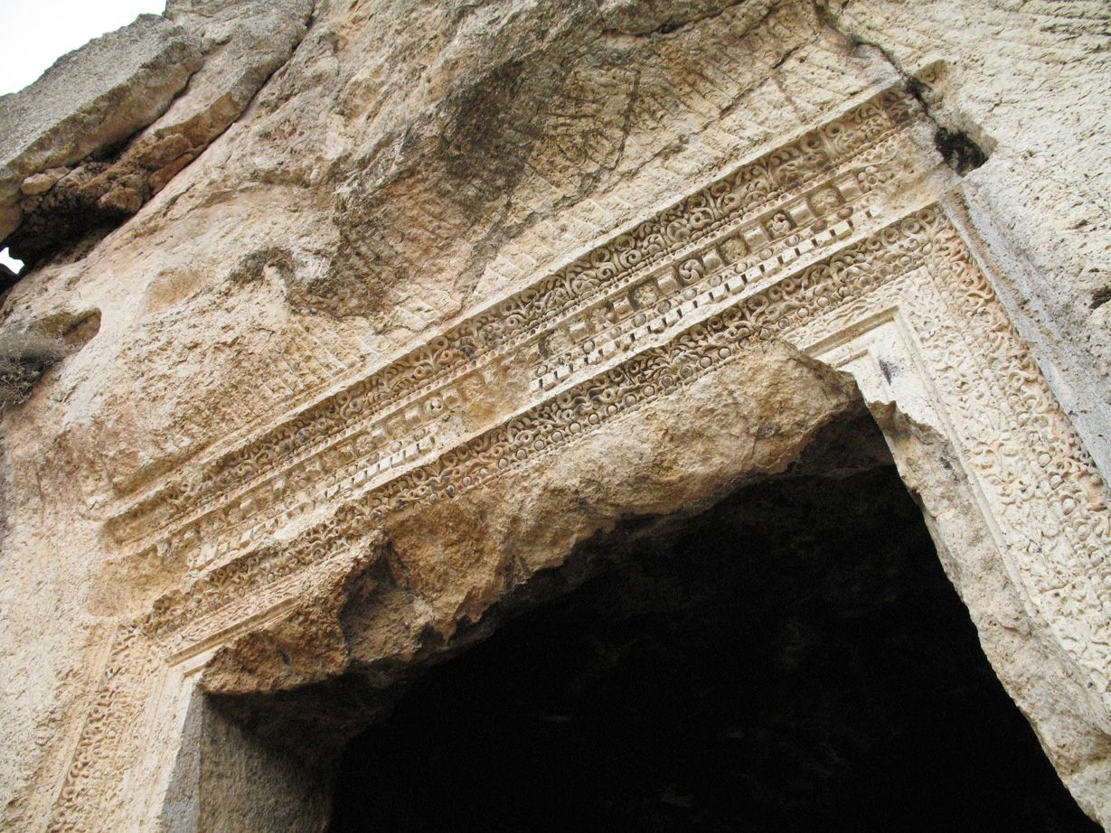 One of the two temples of Mar Takla mountain near the town of Mneen , Syria